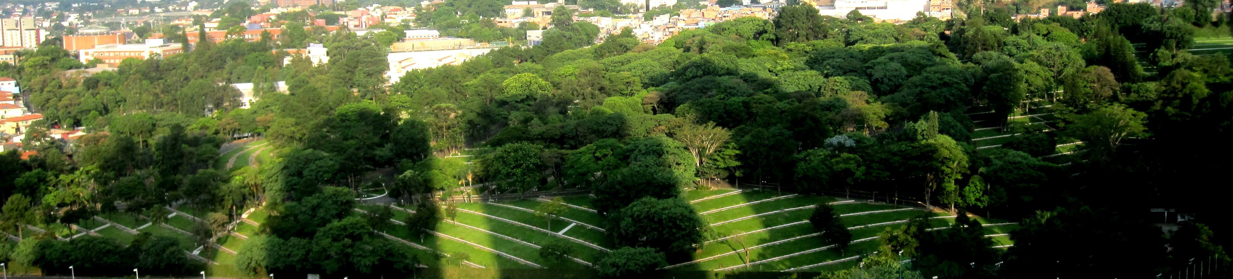 Gethsêmani Cemetery seen from a building in São Paulo, Brazil.